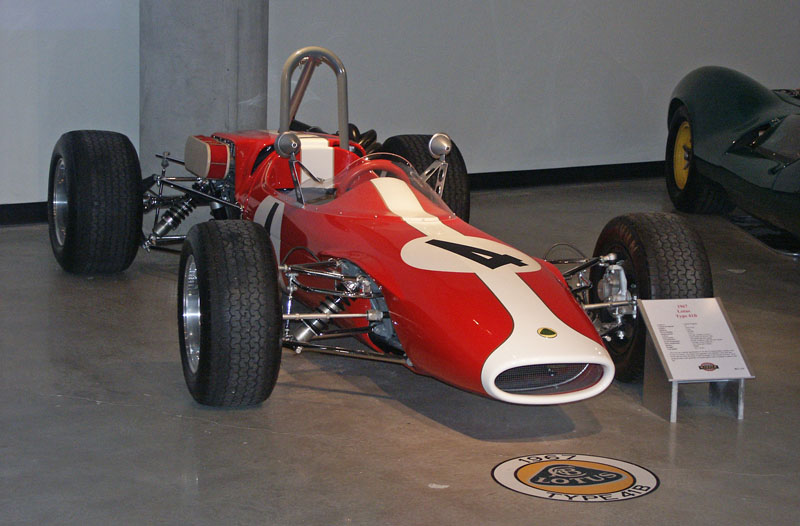 Lotus 41Bwl Formula 2 racing car, at Barber Vintage Motorsports Museum in Leeds, Alabama, USA